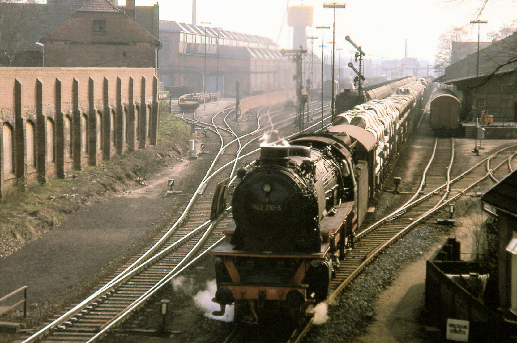 Heavy freights pass through Lingen (Ems) station in 1974